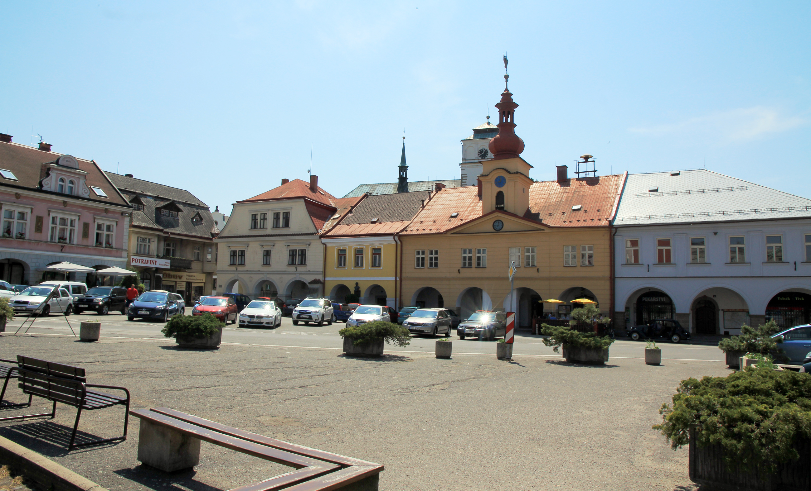 The centrum of the town Sobotka in Czech Republic, Náměstí míru “(Square of peace)” with Old town hall, 2017